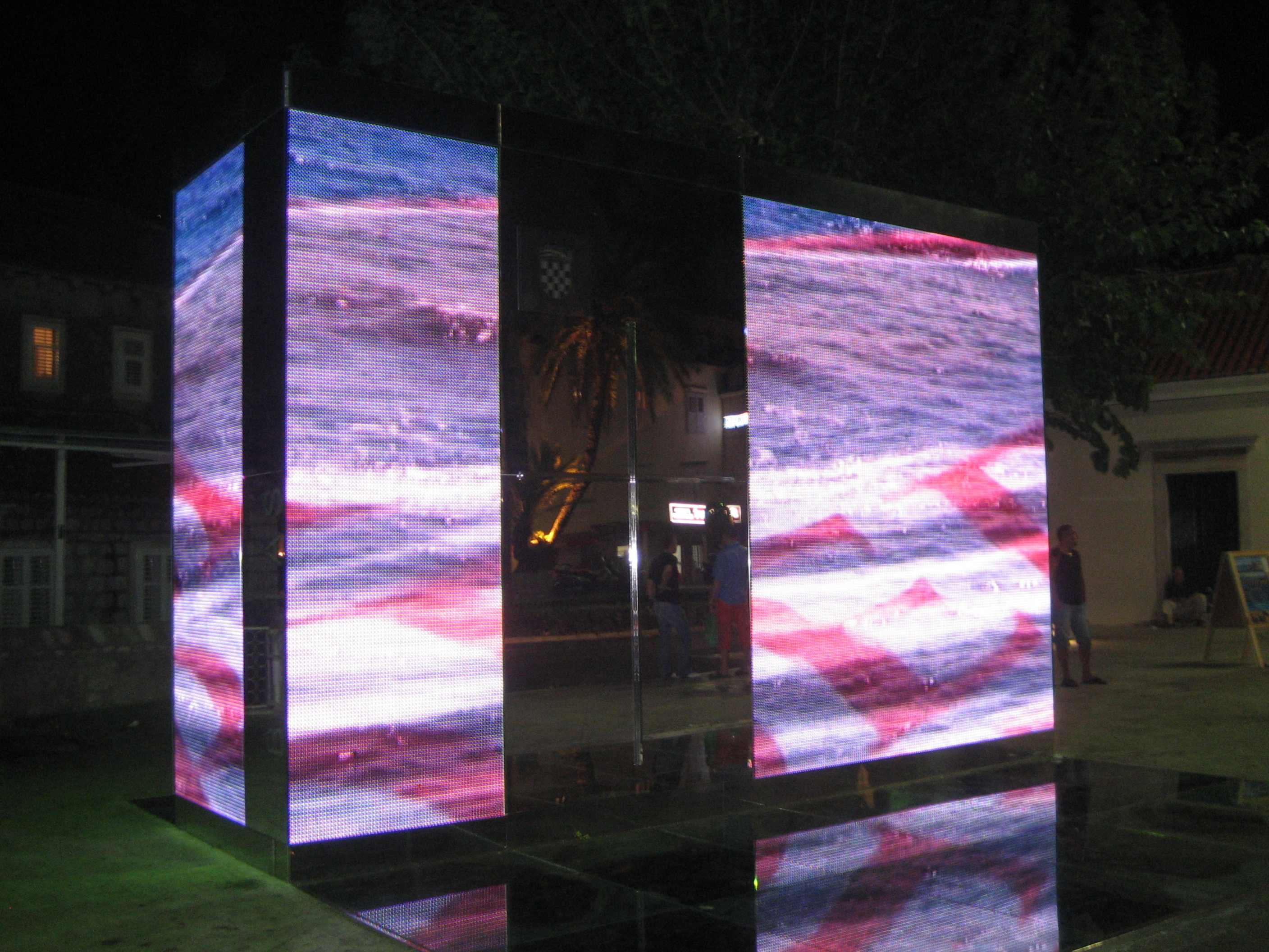 Memorial for the defenders of Dubrovnik 1991-1995